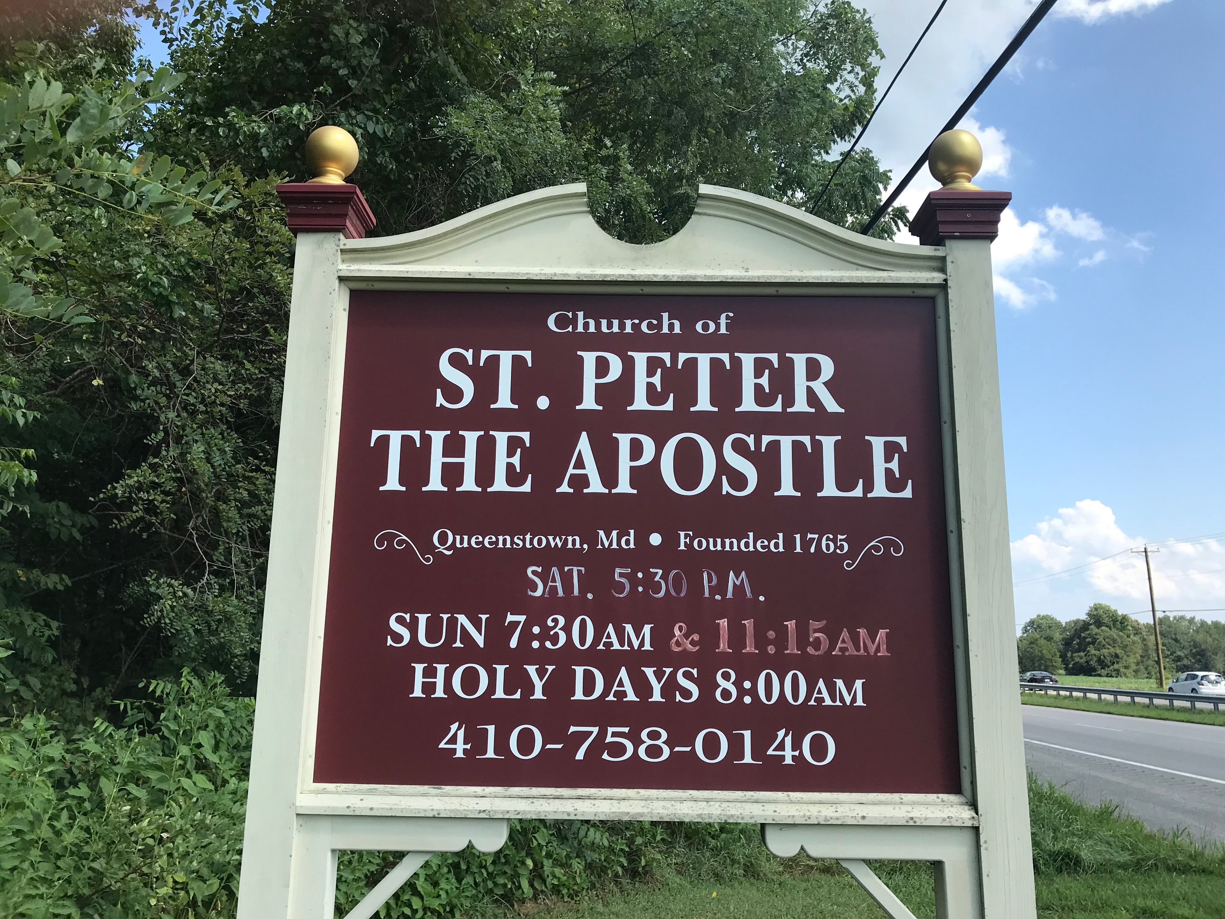 Sign in front of historic St. Peter's Catholic Church near Queenstown, Maryland